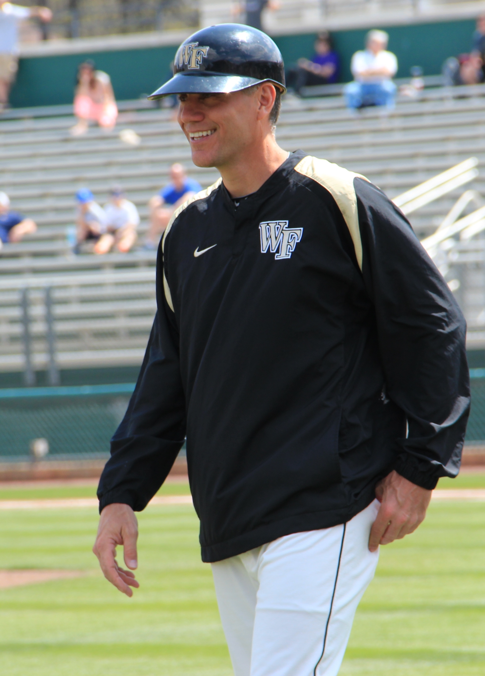 Wake Forest baseball coach Tom Walter, 2013